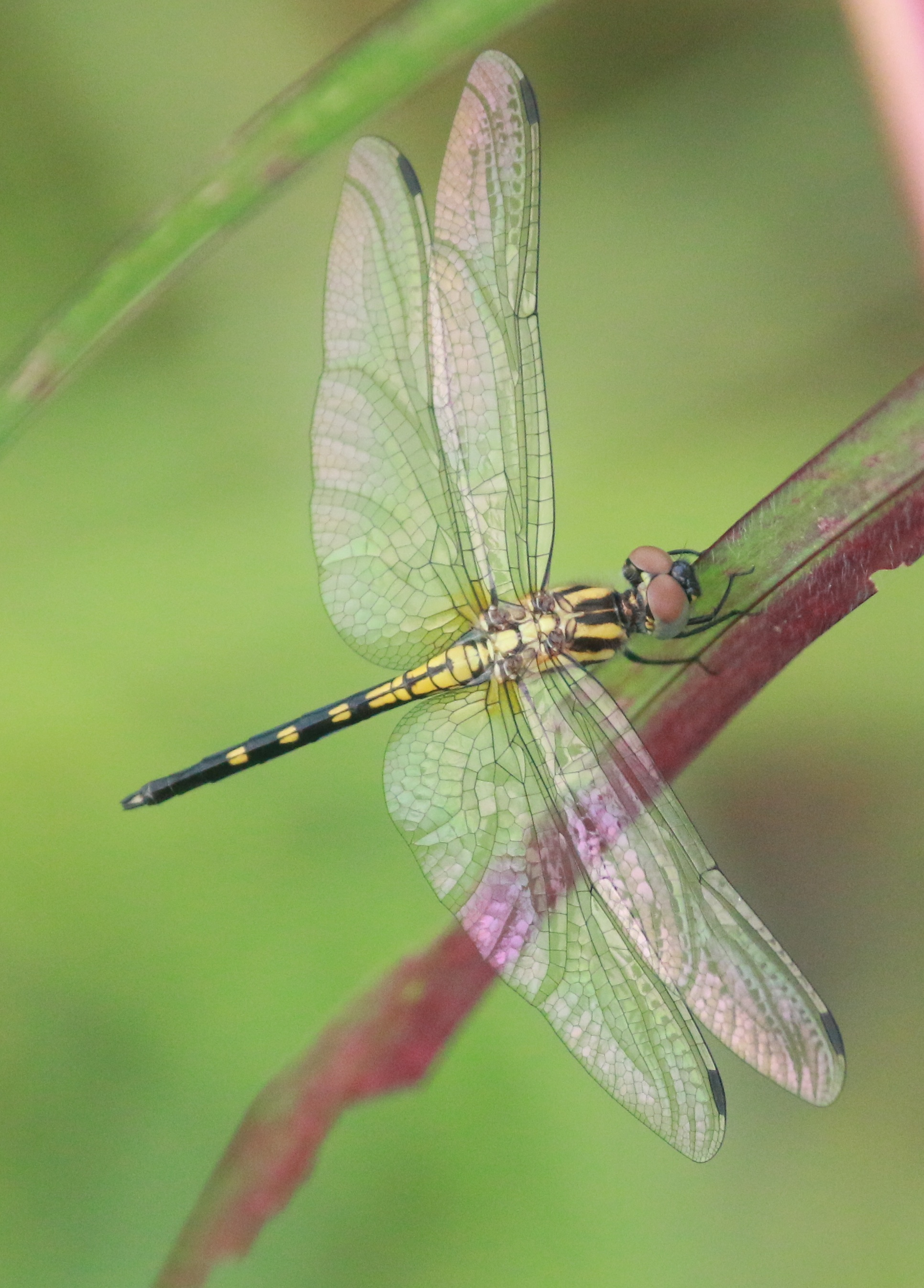 Trithemis festiva,Black Stream Glider ,teneral